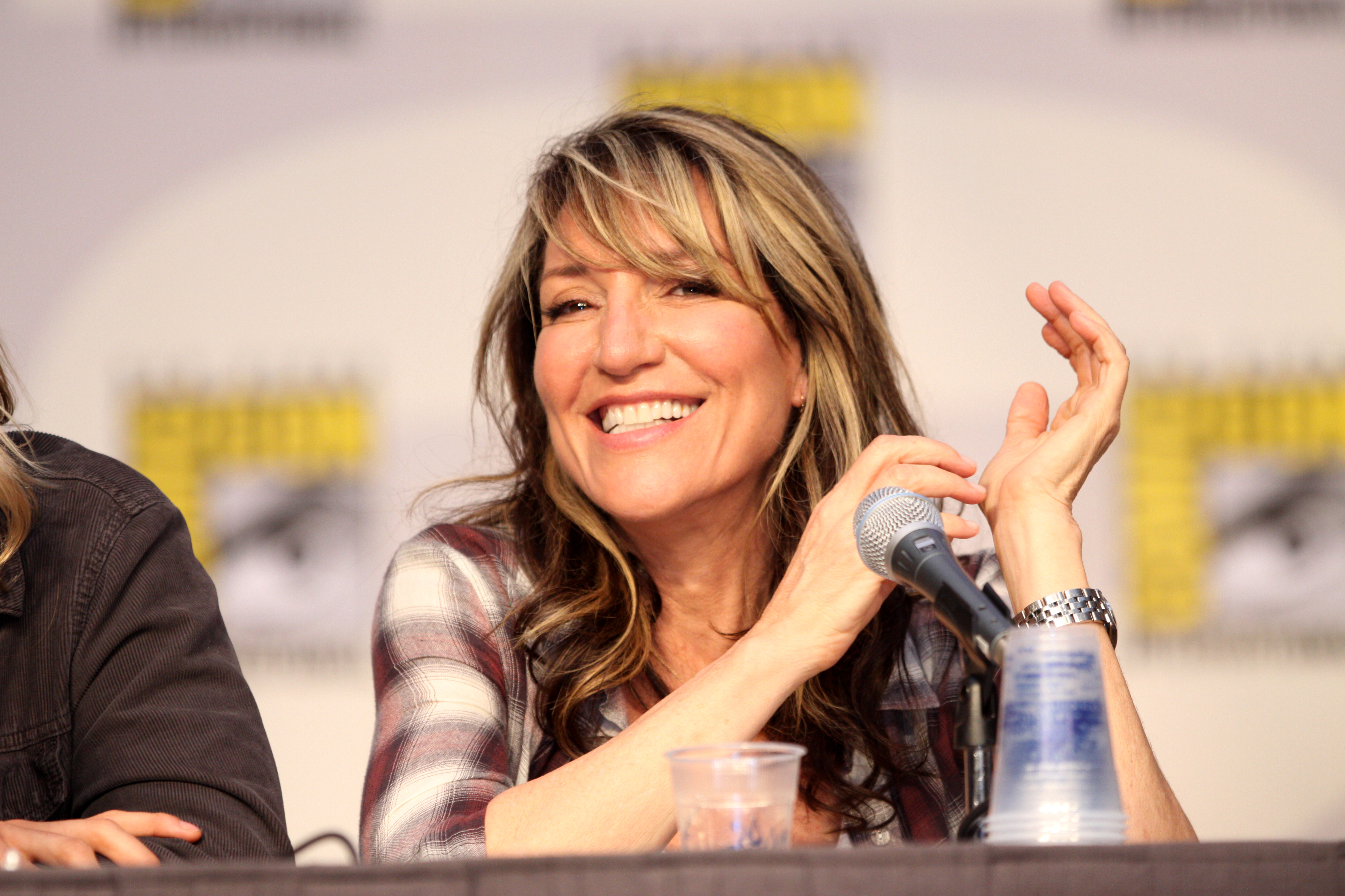 Actress Katey Sagal on the Sons of Anarchy panel at the 2010 San Diego Comic Con in San Diego, California.